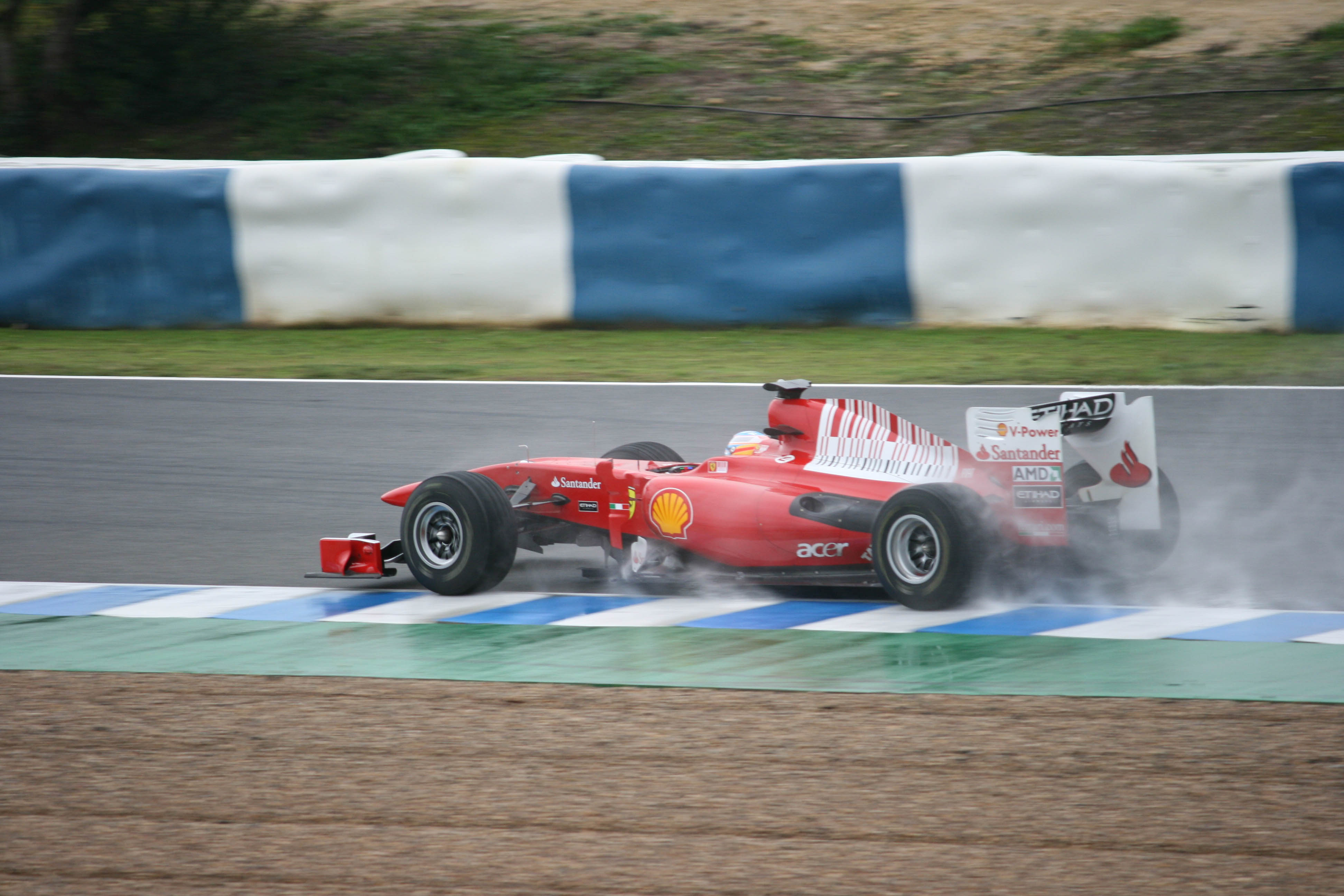 Fernando Alonso testing for Scuderia Ferrari at Jerez, February 10, 2010.